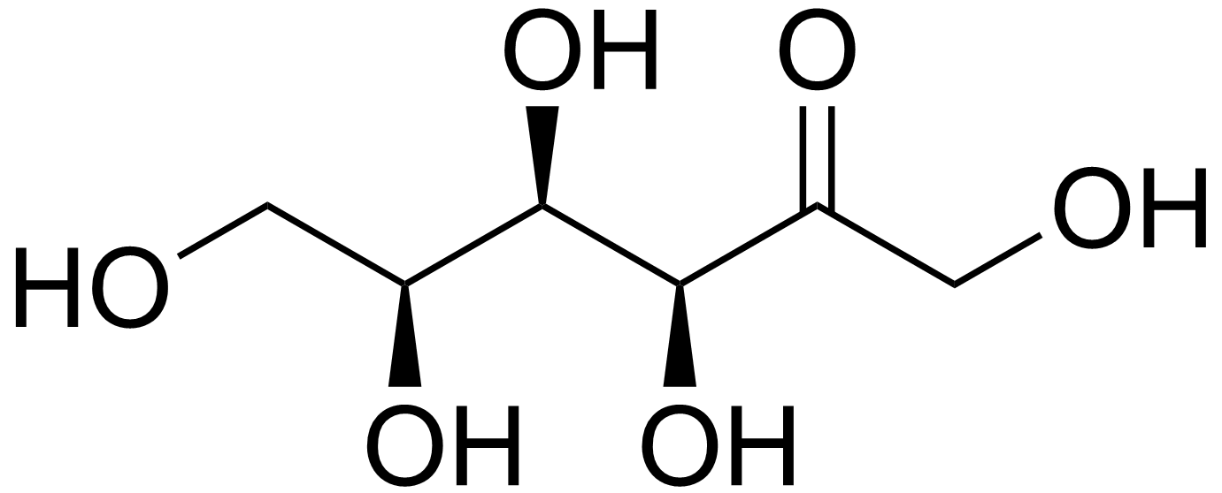 chemical structure of L-sorbose created with ChemDraw